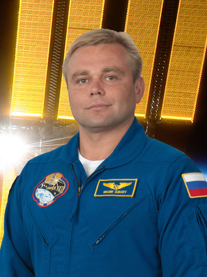 Russian cosmonaut Maxim Suraev, flight engineer